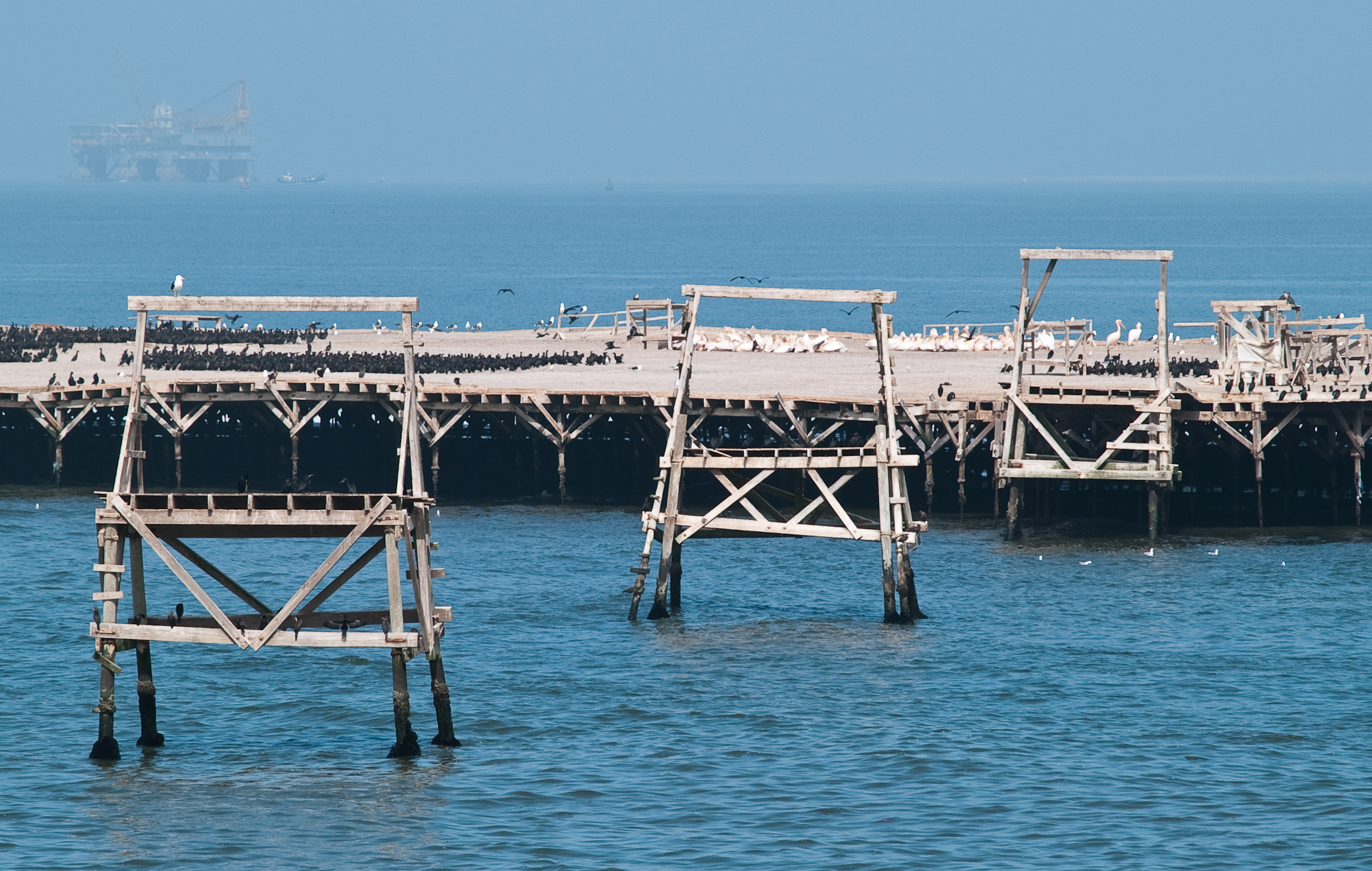 Close view of Bird Island from Namibian coast near Walvis Bay